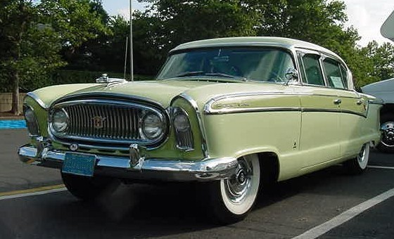 1956 Ambassador by Nash Motors. Stunning four door sedan - front view.